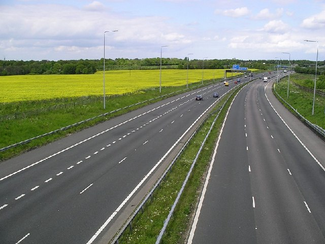 M2 Motorway in Kent This image was taken close to the village of Bredhurst where the M2 motorway cuts through north Kent.